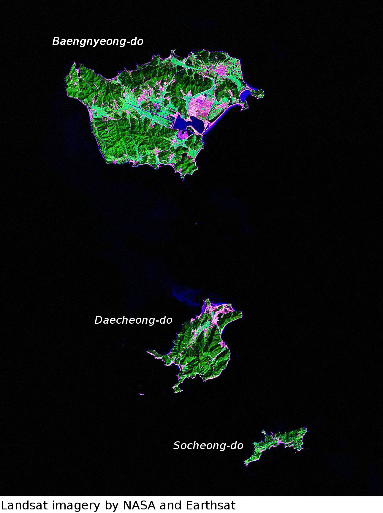 Baengyeong, Daecheong, and Socheong Islands in Ongjin County, Incheon Metropolitan City, South Korea